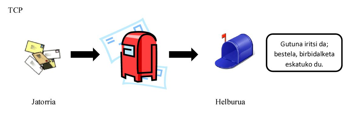 TCPren analogia